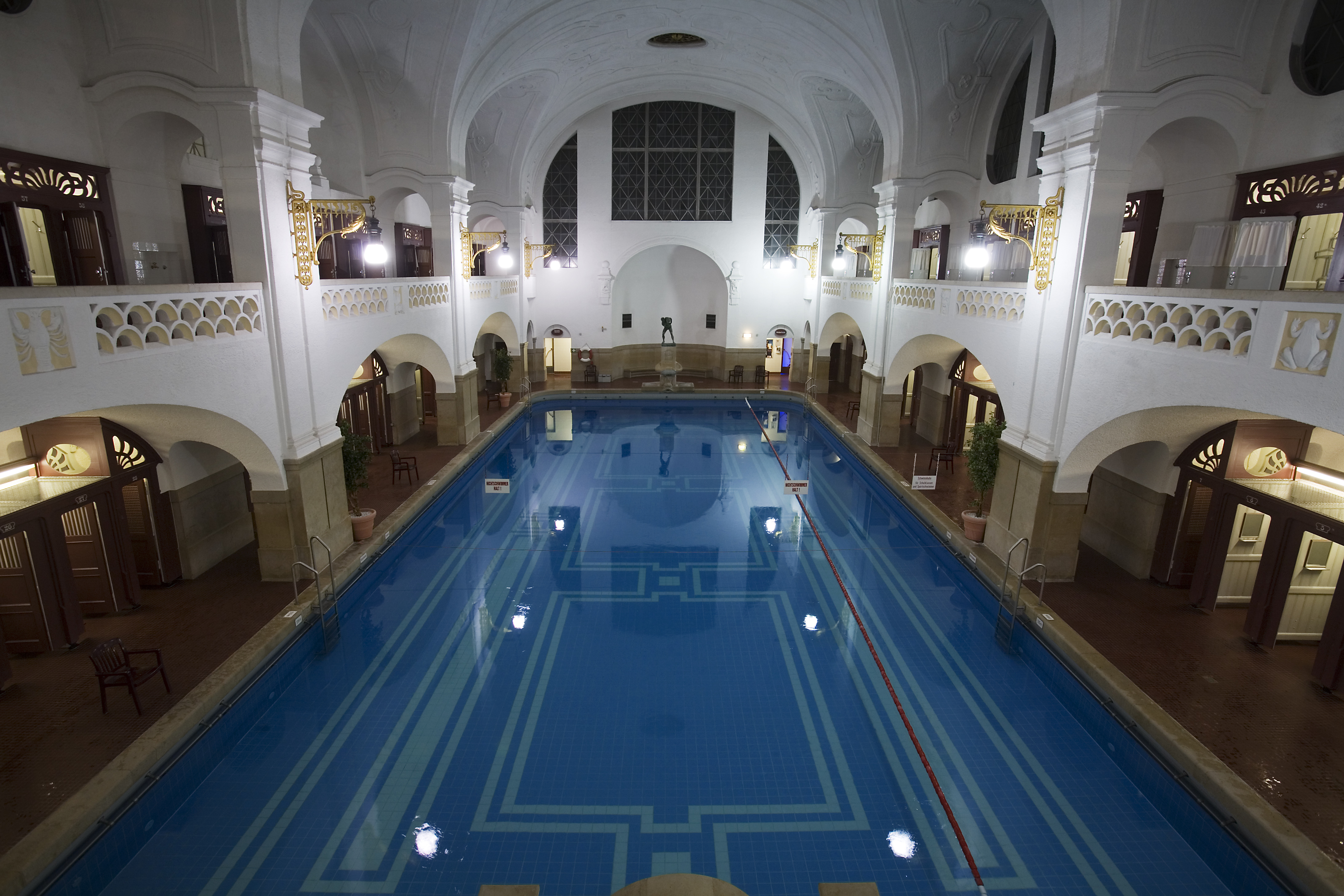 Art Nouveau Bath House (Müllersches Volksbad). Munich, Germany